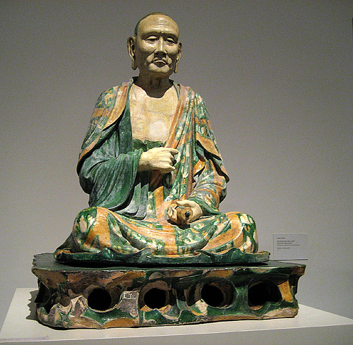 Seated luohan, Liao dynasty (907–1125), ca. 1000 Yixian, Hebei Province, China Earthenware with three-color (sancai) glaze; H. 41 1/4 in. (104.8 cm) Frederick C. Hewitt Fund, 1921 (21.76) Buddhist tradition tells of groups of 16, 18, or 500 luohans who were commanded by Buddha to await the coming of Maitreya, the Future Buddha. This promise of salvation held great appeal to Chinese Buddhists at the end of the ninth century, for they had just been through a period a great persecution, and a cult built around the luohans as guardians gained momentum at that time. The Museum has two statues from a group of seated luohans purportedly found in a mountain cave near Yizhou, (now known as Yixian) in Hebei Province, and dating from this unsettled period. The polychromatic glaze covering the figures has strong parallels to the well-known sancai, or three-color, tradition found in earlier Tang-dynasty funerary figures. The high quality of the designs and the use of sophisticated techniques such as reinforcing rods have long led scholars to speculate that this example, and others from the set, may have been made at one of the imperial kilns, where large firing chambers and highly skilled craftsmen were available. The discovery of a kiln in Longquanwu at Mentougou village (a western suburb of Beijing) in 1983 and the subsequent excavation in 1985 have provided much useful information regarding the "Yixian Luohans" as the group is often known. In addition to a considerable quantity of sancai ware, the site also yielded three half-lifesize Buddhist sculptures: a white ceramic Buddha with a painted robe, and two bodhisattvas covered in a sancai-type glaze. Parallels to sculptures produced during the Liao dynasty suggest that the works excavated at Longquanwu date to the second half of the tenth century, while the famous Luohans were made slightly later, probably during the early years of the reign of Shengzong (982–1031).